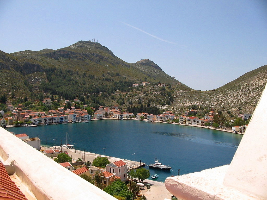 Kastelorizo Harbour, Greece